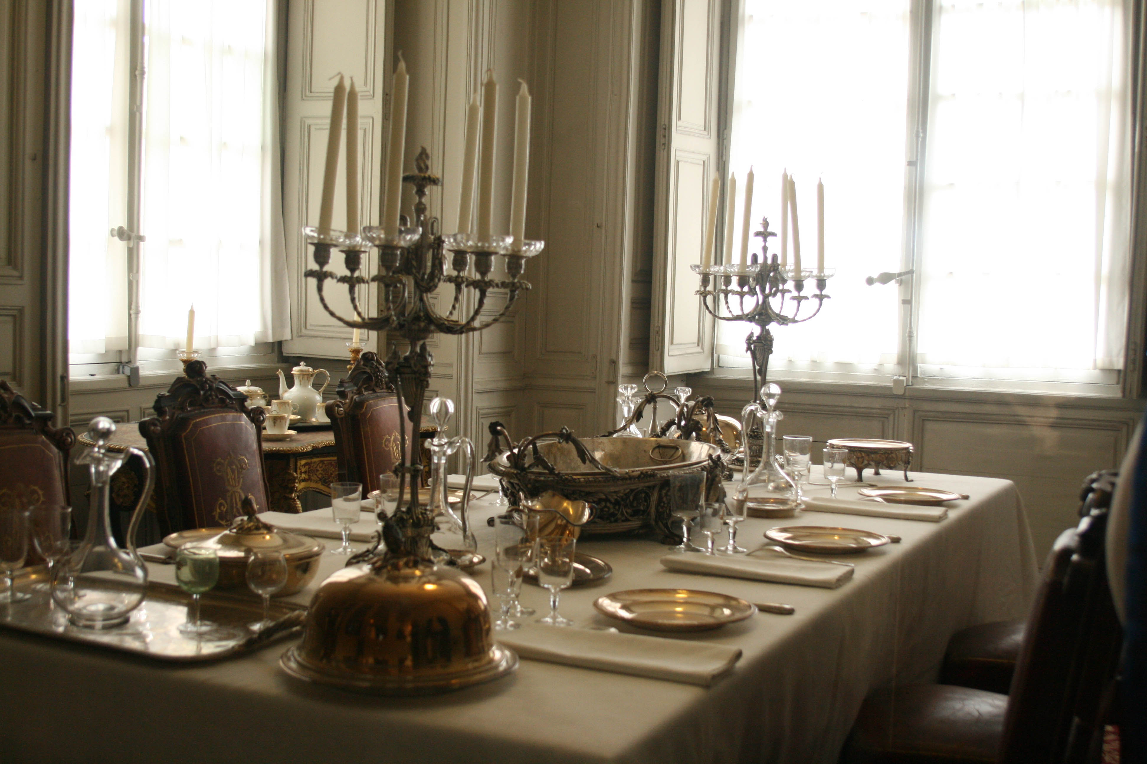 Exhibits in the Musée du Second Empire in Compiègne